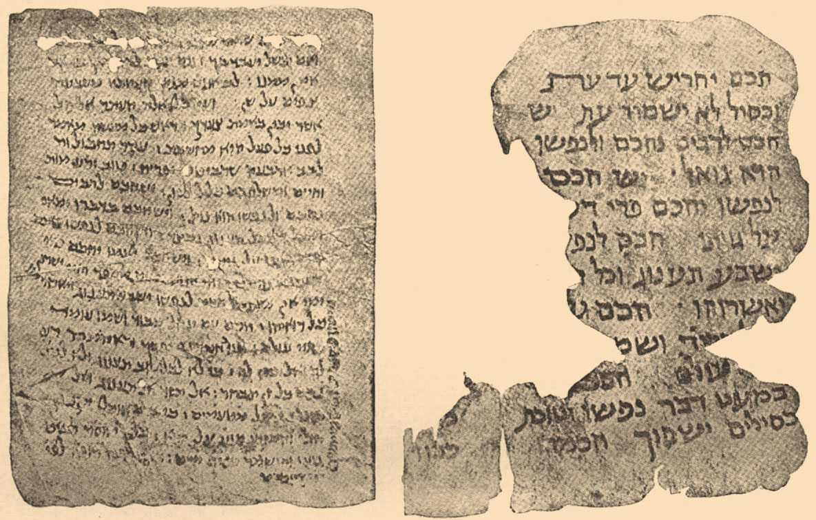 Illustration from Brockhaus and Efron Jewish Encyclopedia (1906—1913)